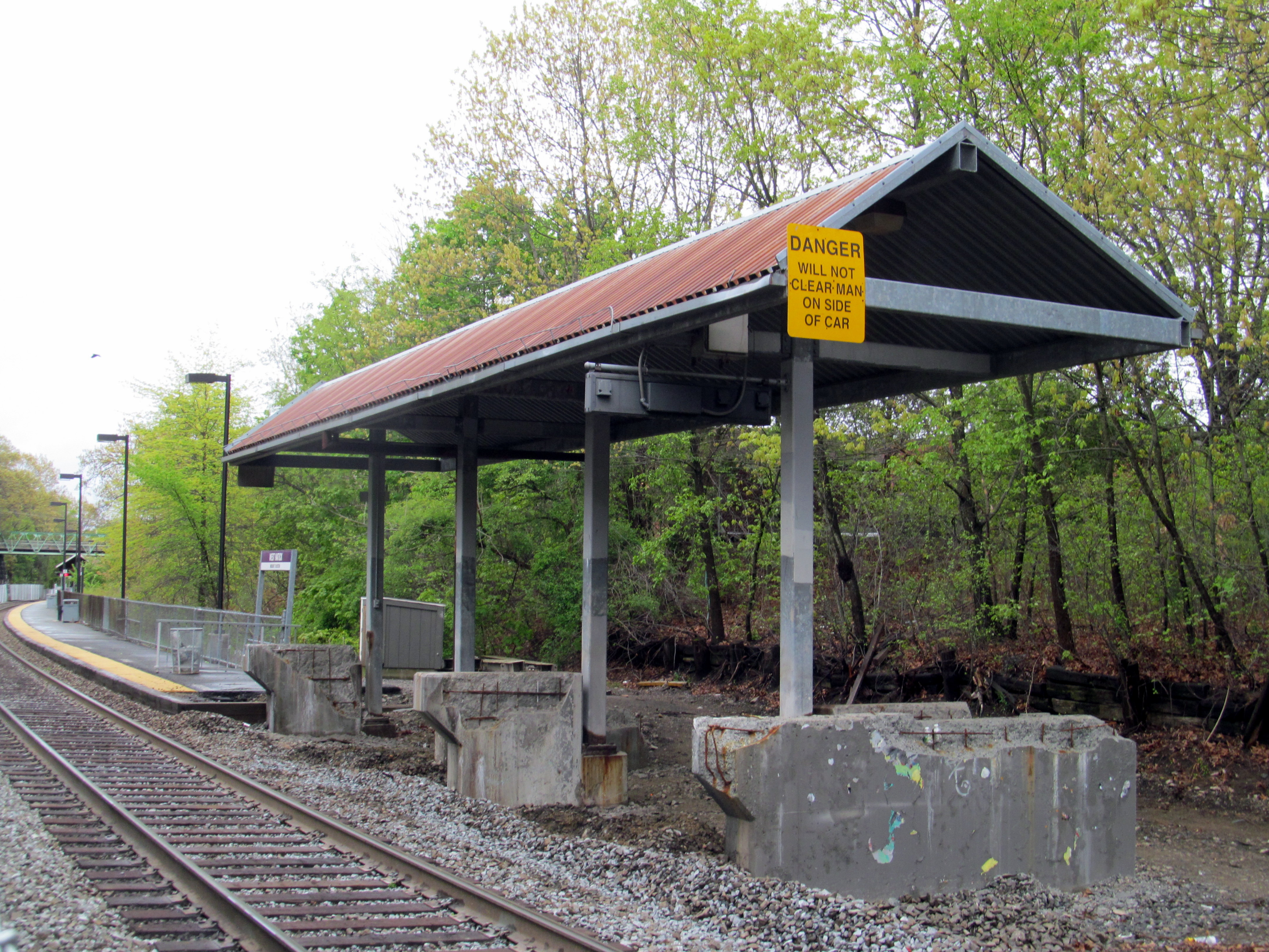 The demolished eastbound mini-high platform West Natick station awaiting replacement in May 2017